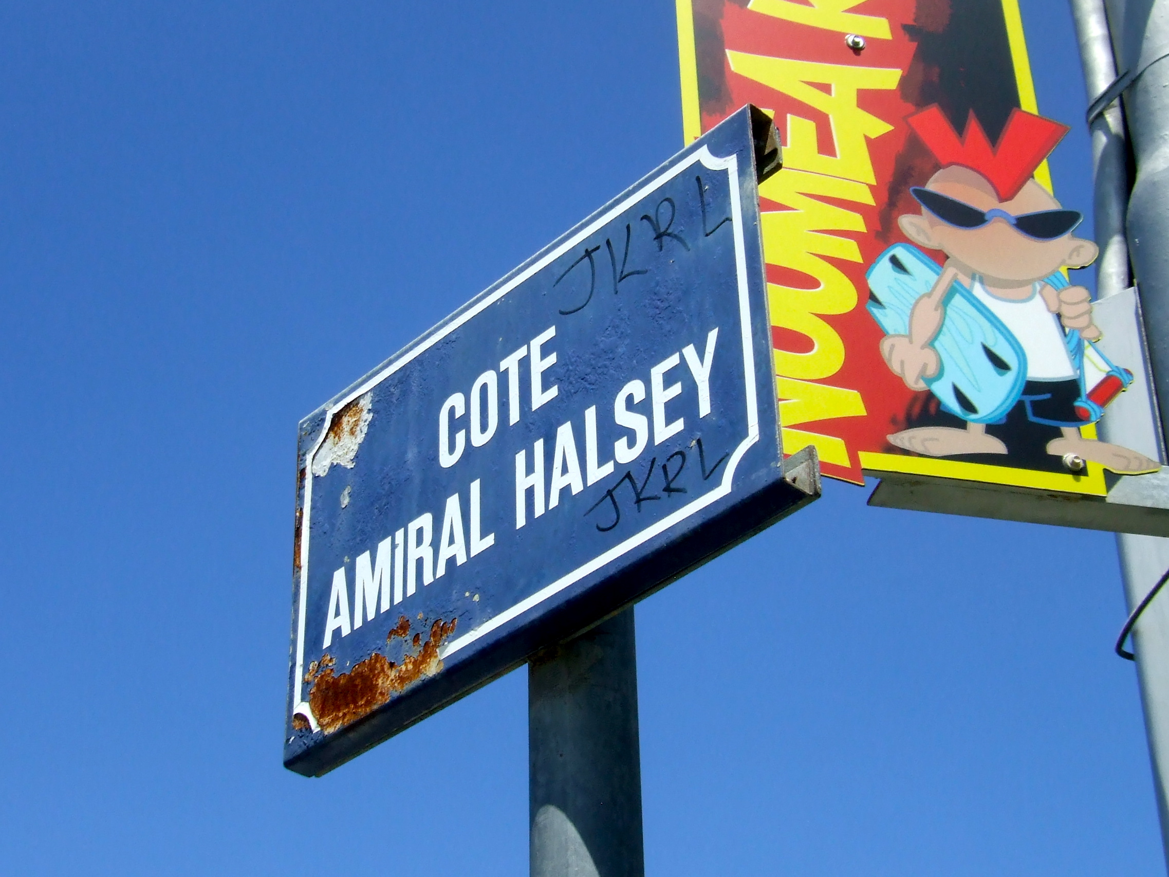 Nouméa street sign for Côte Amiral Halsey, or Admiral Halsey Slope Other information Photo by George Garrigues